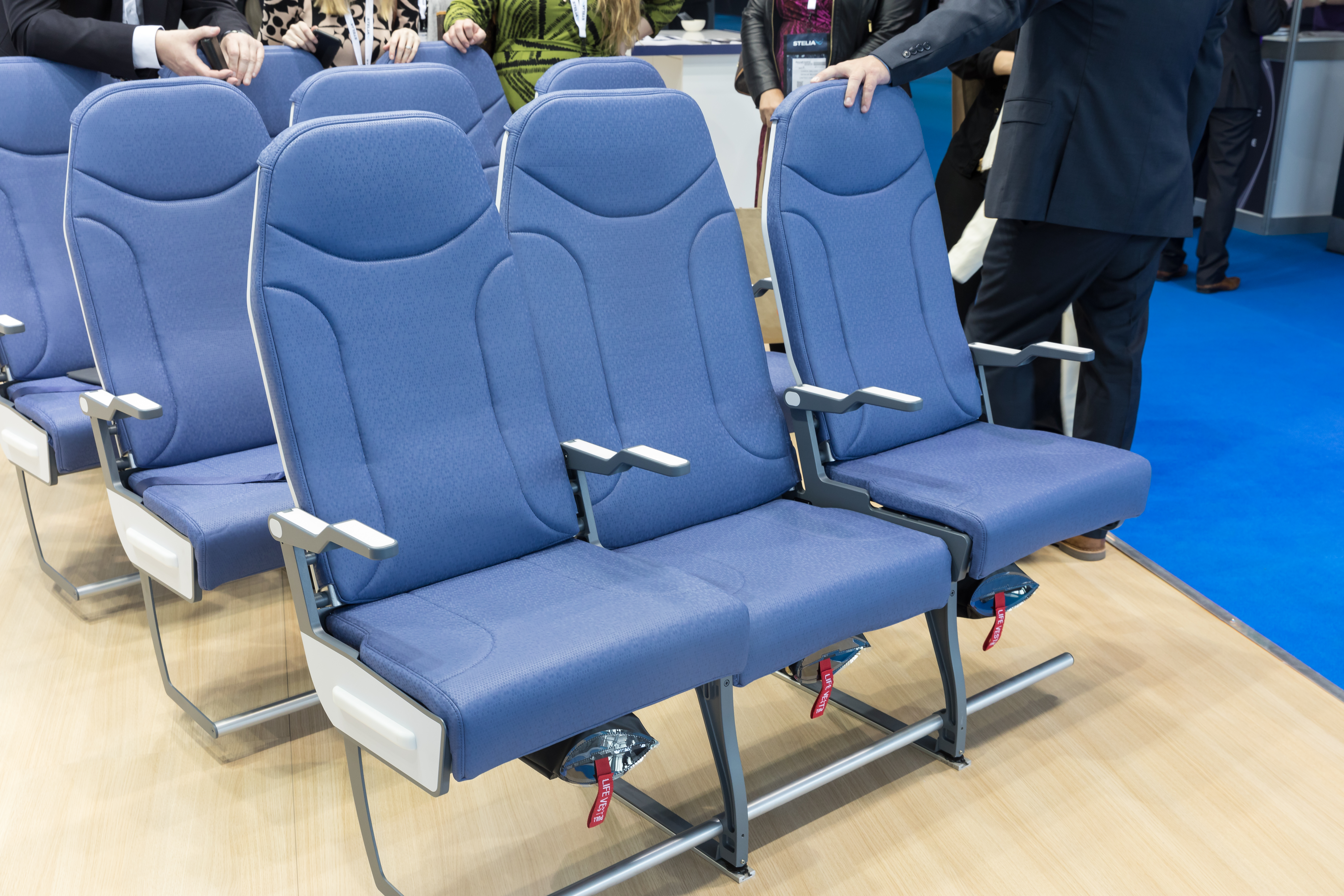 Passenger Experience Week Hamburg 2018